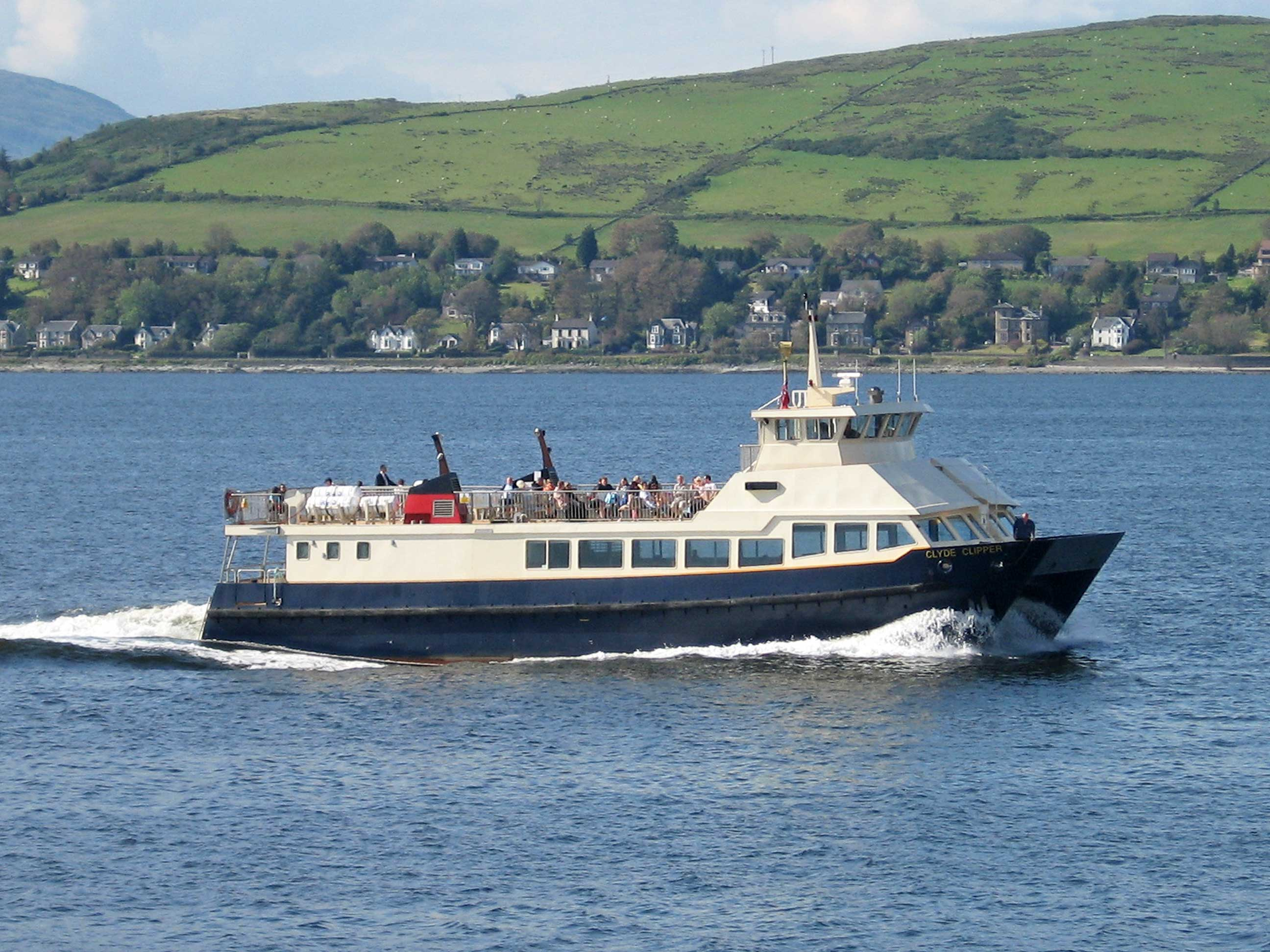 MV Clyde Clipper of Clyde Cruises, on lease to Argyll Ferries Ltd for service on the Gourock–Dunoon run, approaching Gourock pierhead.